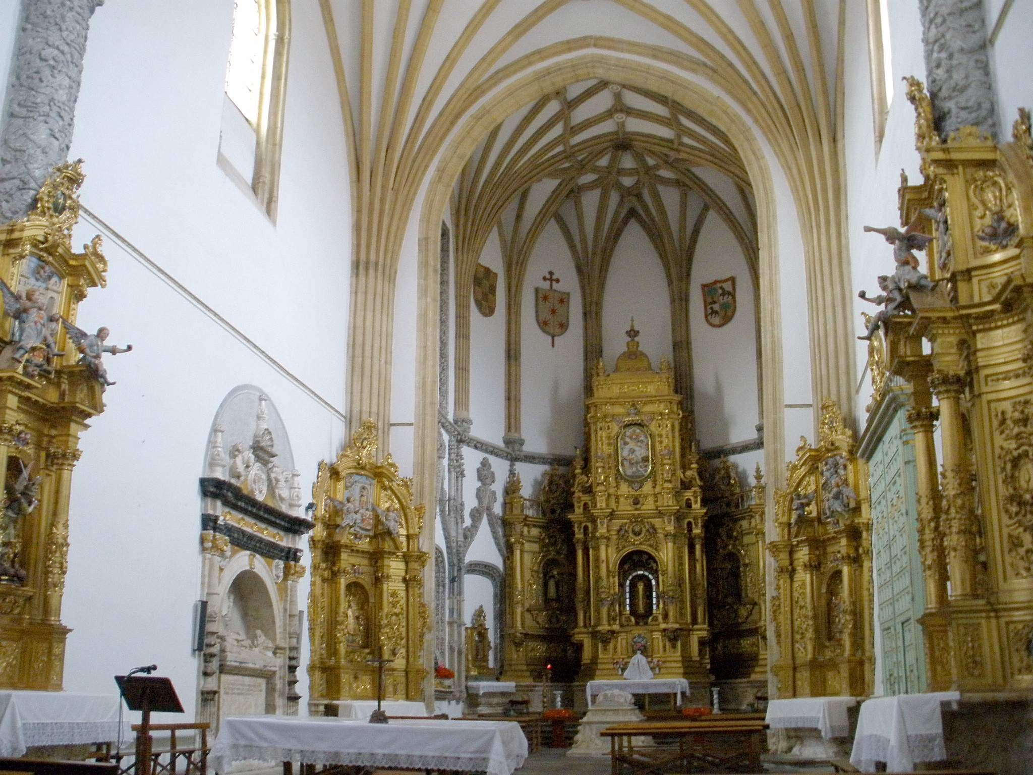 Iglesia del Convento de las Úrsulas (Salamanca)